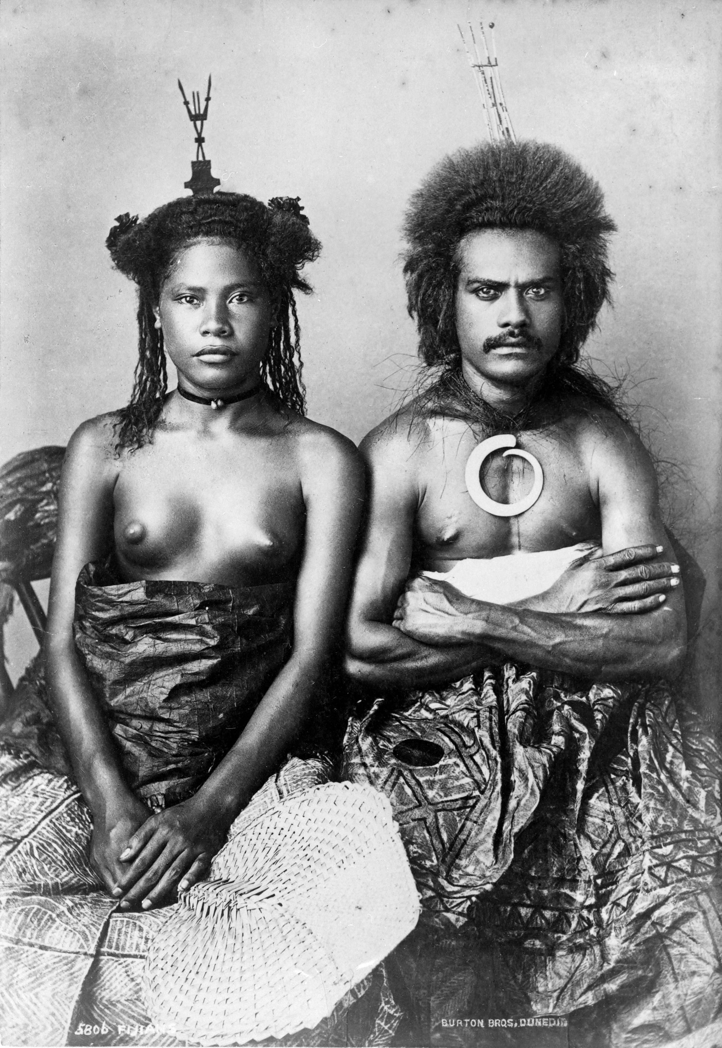 Seated portrait of a Fijian man and a Fijian woman. Both wear headpieces. Tapa cloths are draped over their legs. Photograph taken by Alfred Burton in 1884.